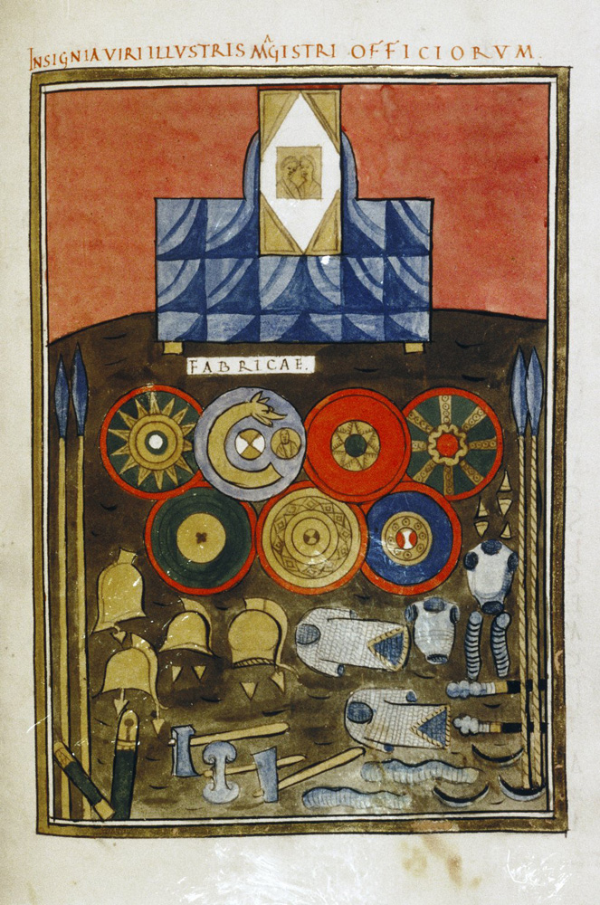 Magister Officiorum (Insignia of the magister militum per orientum) from Notitia dignitatum